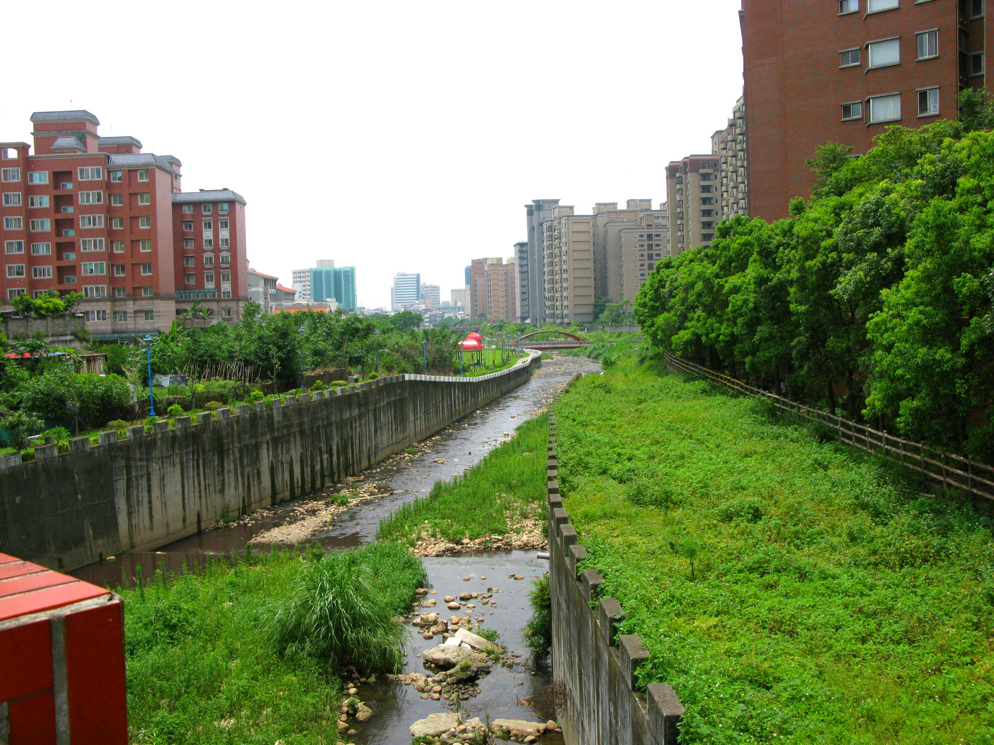 Dakeng River, Taoyuan Luzhu District.